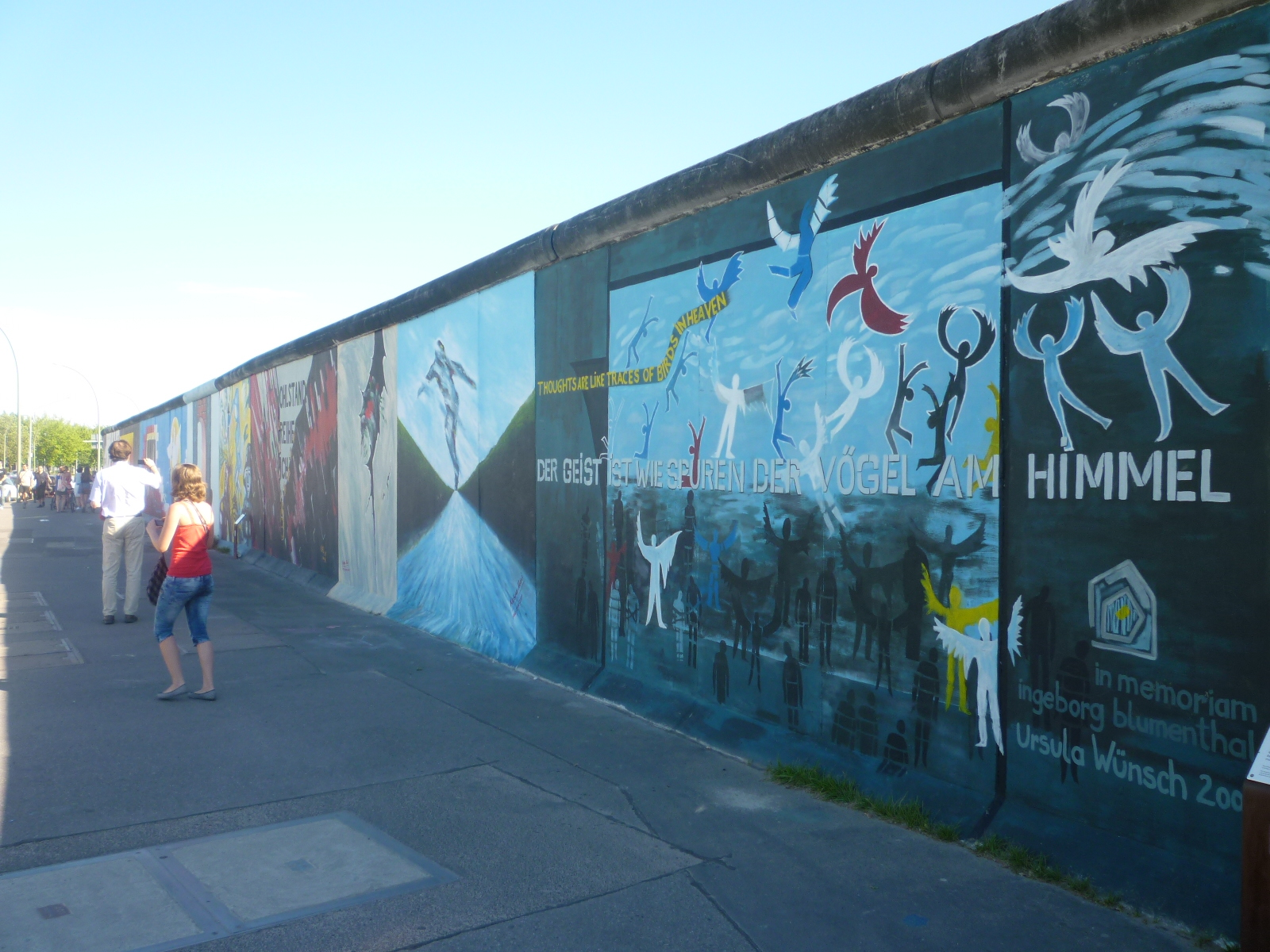 Berlin Wall in Berlin, Germany